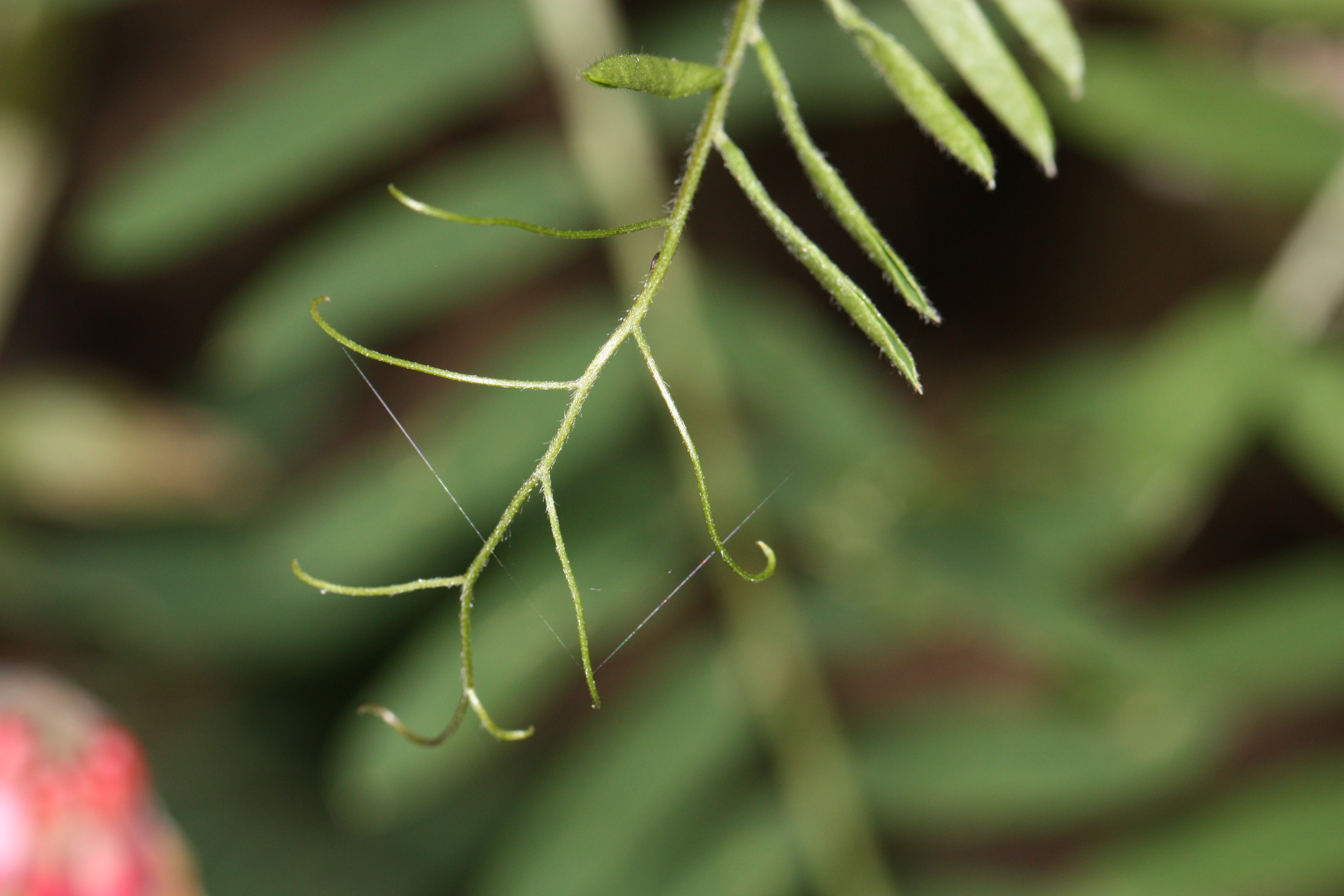 Giant Vetch